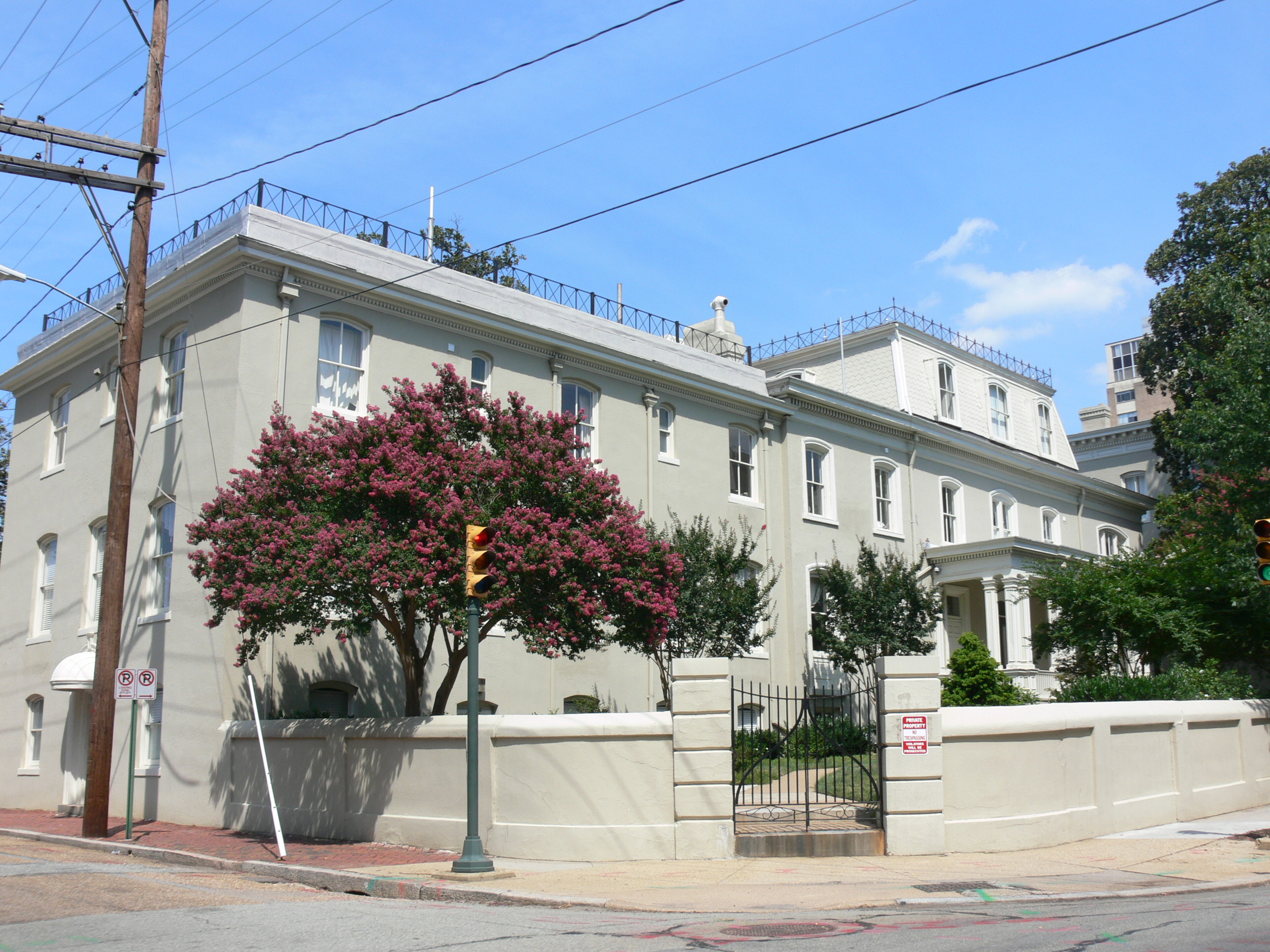 The Price House at 208-212 West Franklin Street in Richmond, Virginia; a contributing property to the 200 Block West Franklin Historic District.